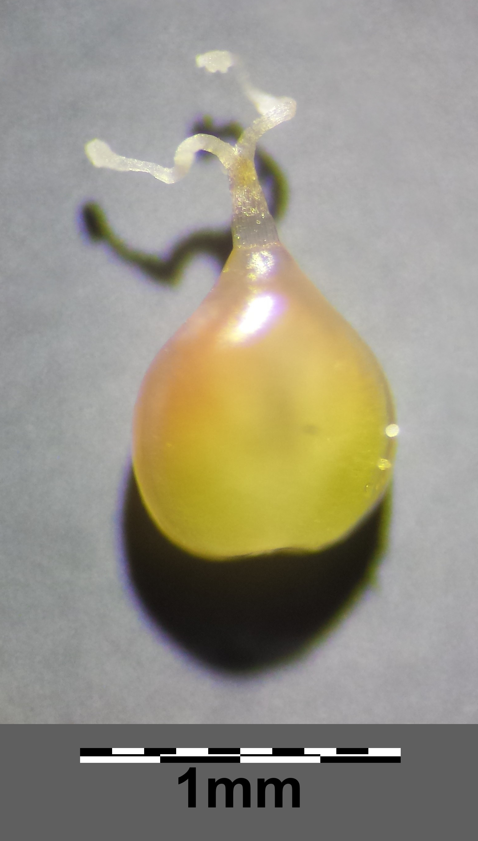 Ovary with styli Taxonym: Persicaria maculosa ss Fischer et al. EfÖLS 2008 ISBN 978-3-85474-187-9 Location: Leopoldau, Vienna-Floridsdorf - ca. 160 m a.s.l. Habitat: gap in road surface